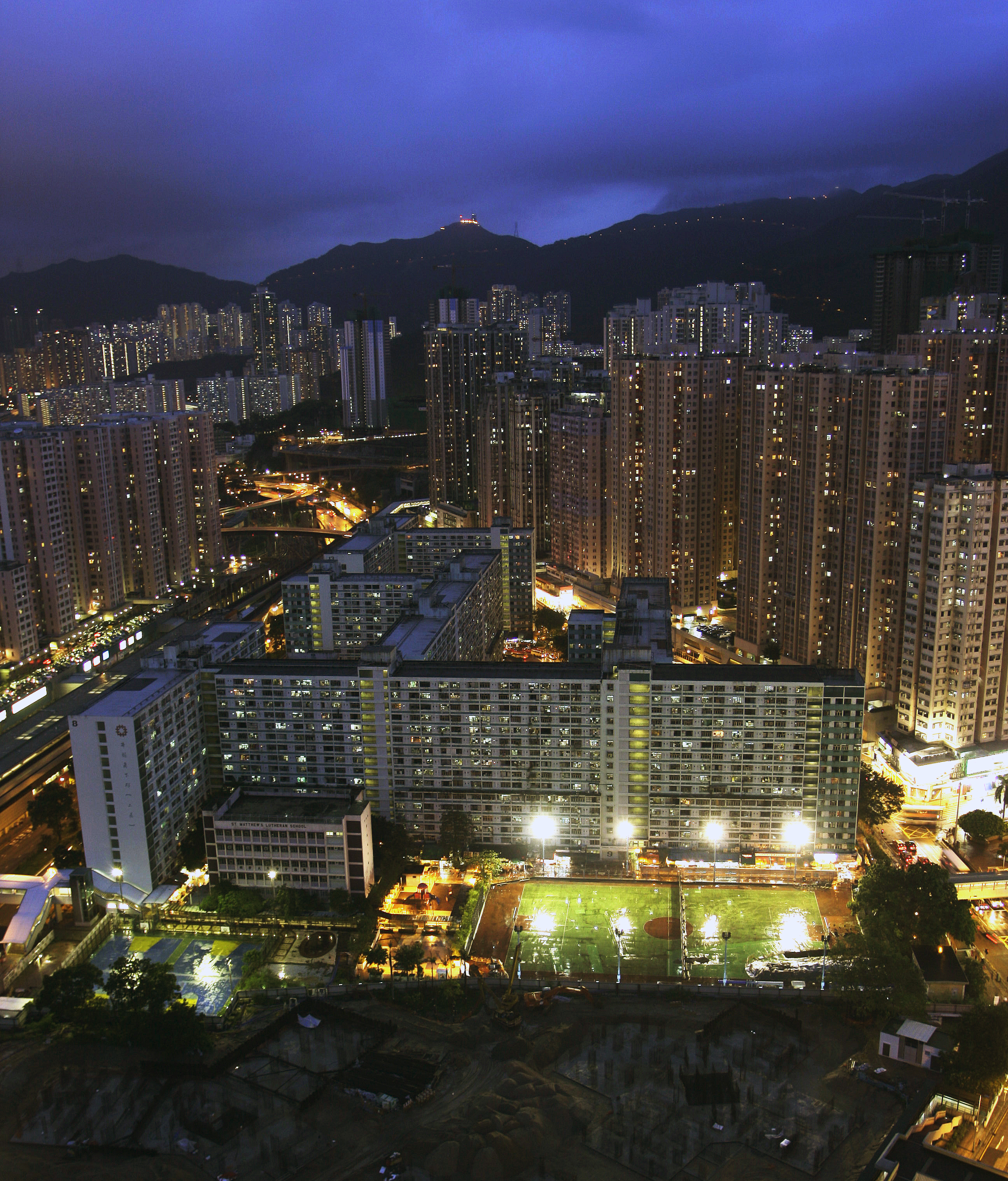 Lower Ngau Tau Kok Estate Zone 2